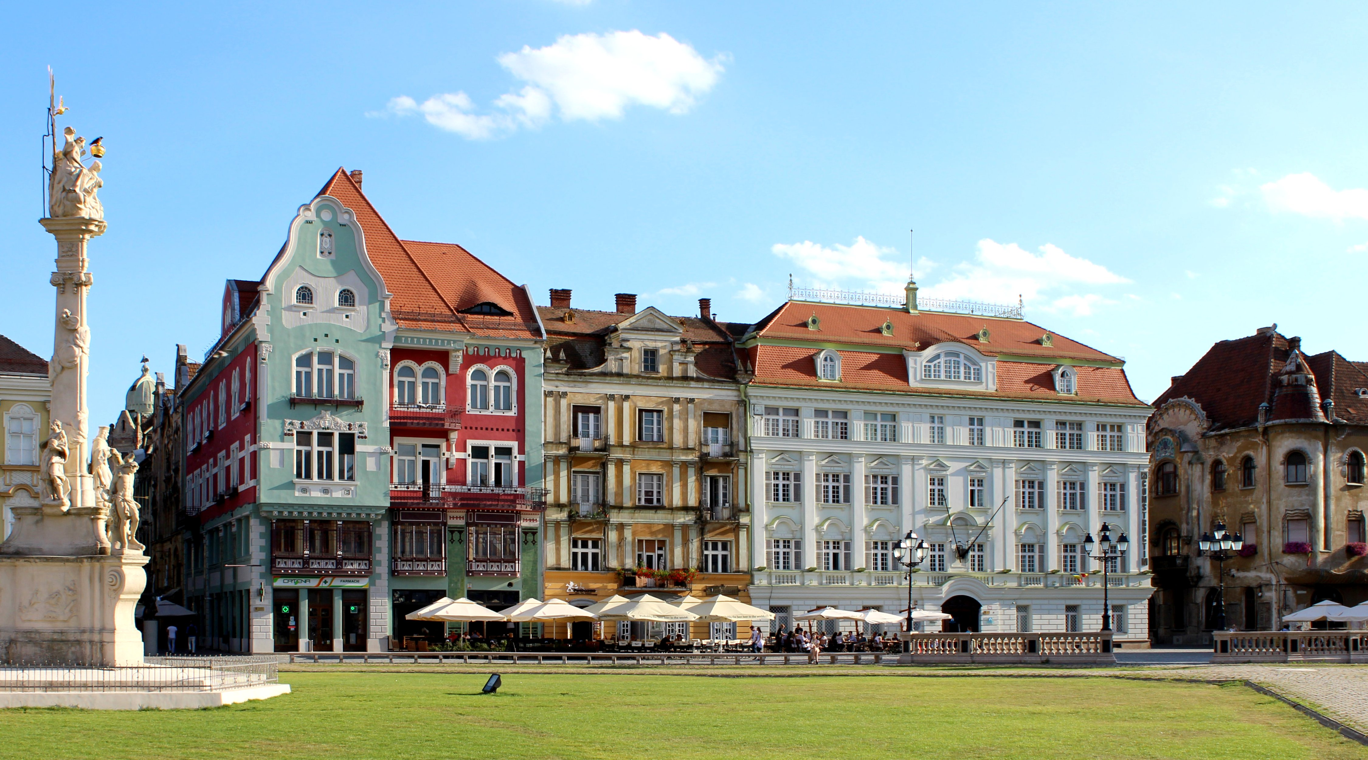 Union Square, south side, Timișoara, Romania